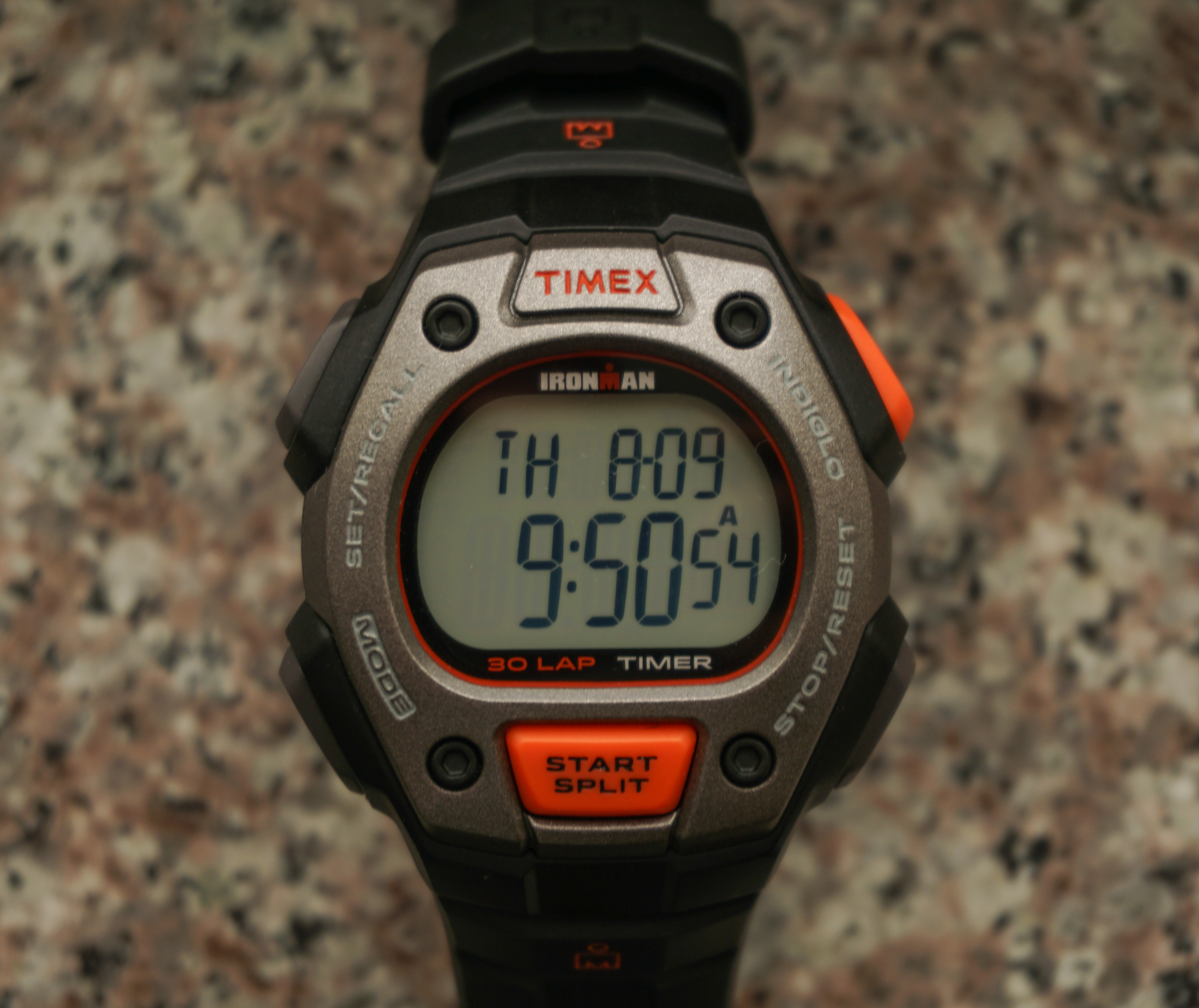 tw5k90900